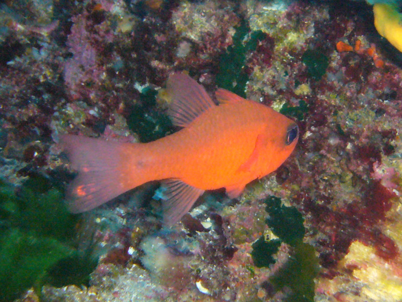 Apogon imberbis, Croatia